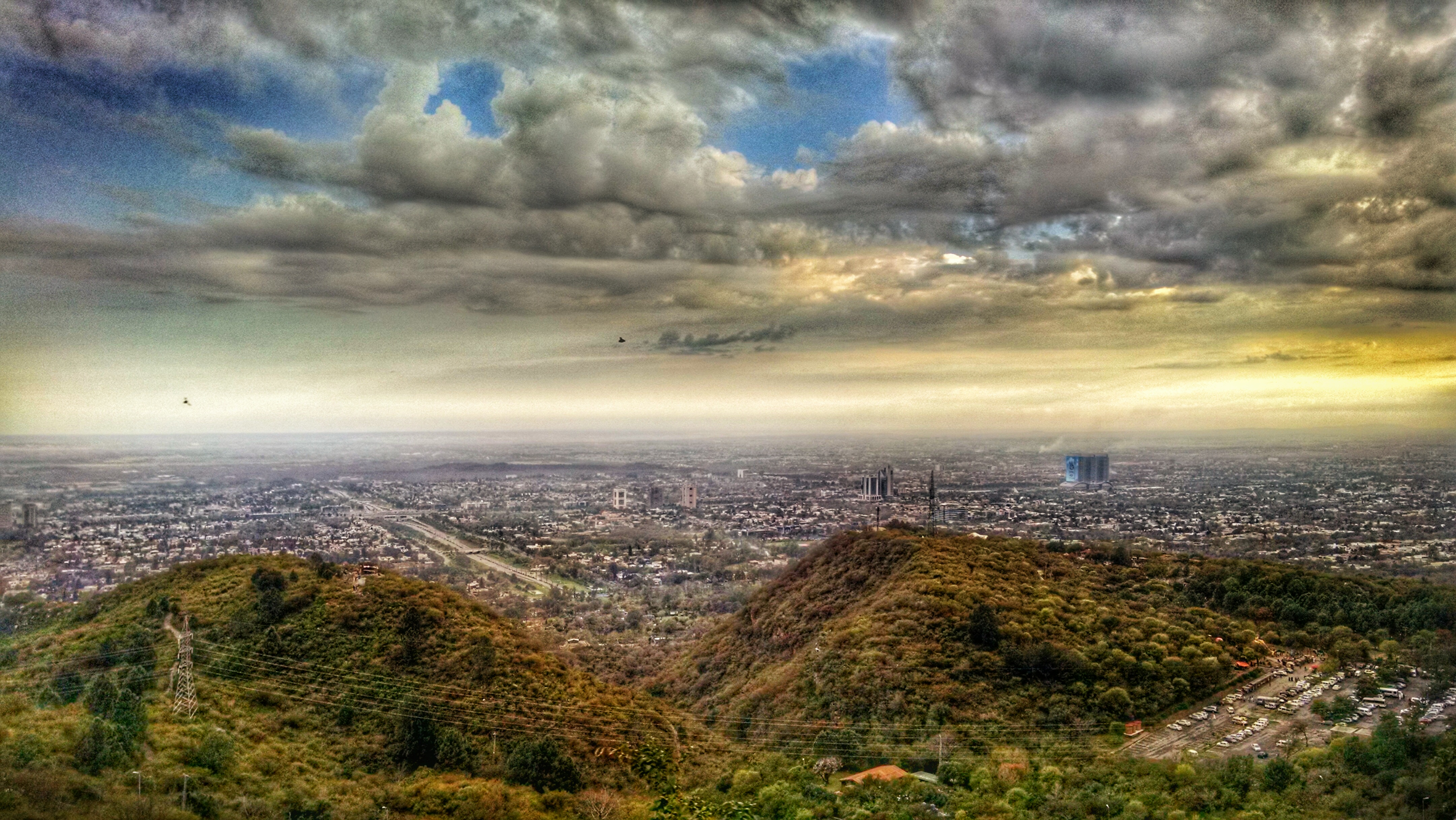 "As the dark clouds set for the rain". Clouds setting over Islamabad, Pakistan. P.s Picture shot from the Margalla hills, Islamabad, Pakistan.